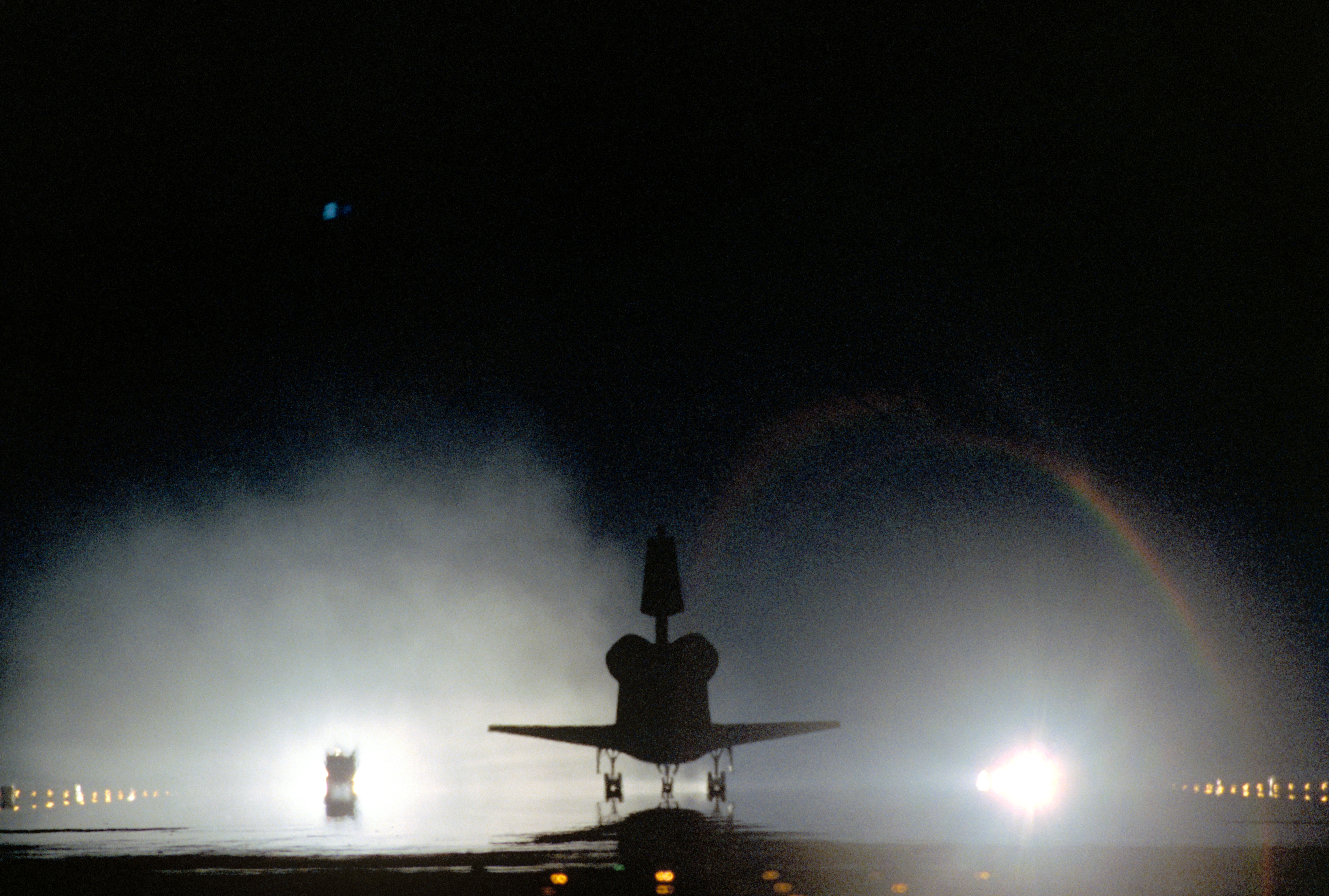 (July 27, 1999) Space Shuttle Columbia's STS-93 mission landed at the Kennedy Space Center. Launched on July 23, 1995, STS-93 was the first shuttle mission commanded by a woman, Col. Eileen M. Collins. The main goal of the mission was to deploy the Chandra X-Ray Observatory, a telescope designed to detect X-ray emission from extremely hot areas of the Universe, such as exploded stars. The astronauts also experimented on several plants, and took ultraviolet images of the Earth, the Moon, Mercury, Venus, and Jupiter.